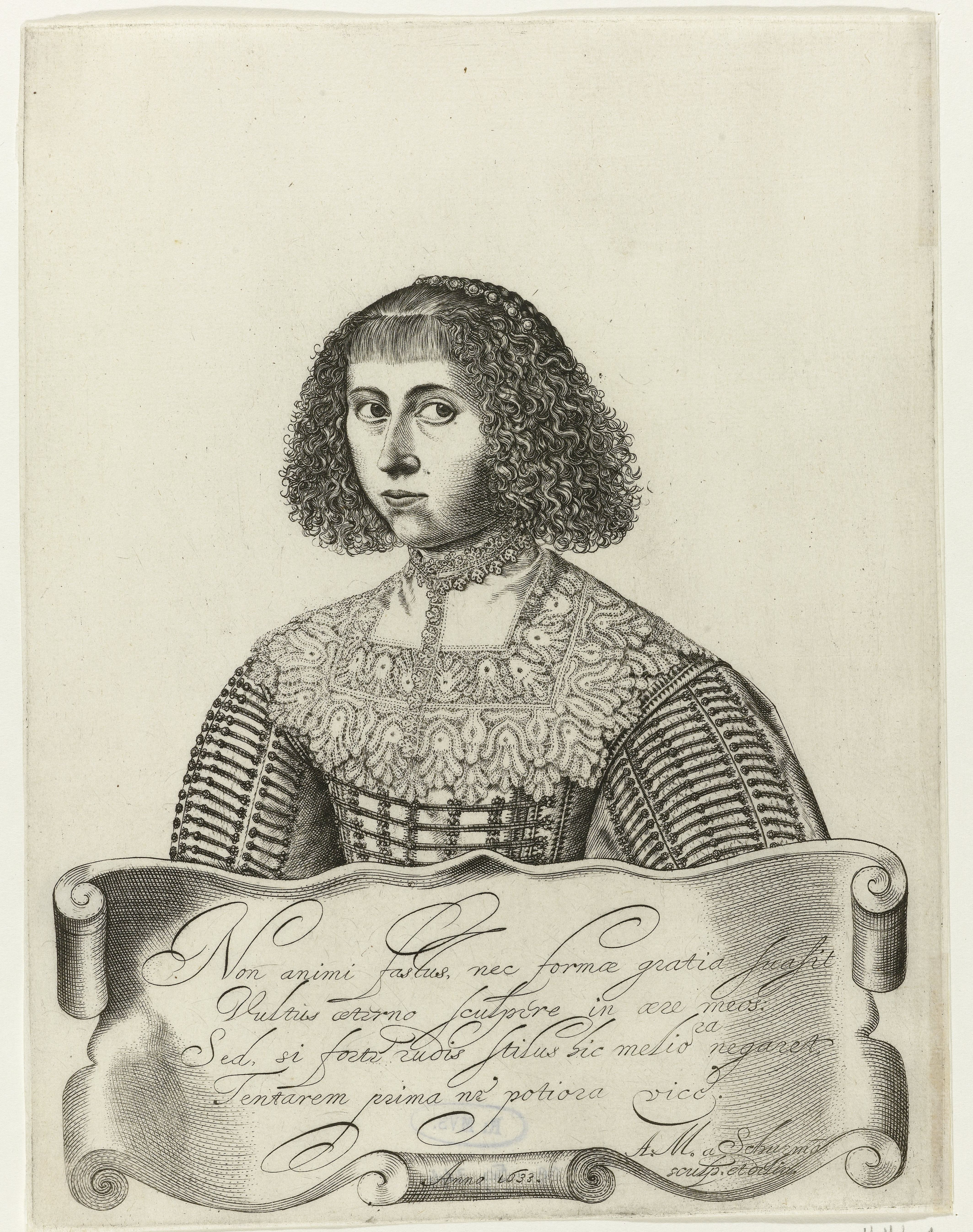 Self portrait Anna Maria van Schurman (1607-1678), aged 33. Text (translation) No pride or beauty prompted me to engrave my features in eternal copper; But if my unpractised graver was not yet capable of producing good work, I would not risk a more weighty task the first time. A.M. à Schurman engraving and drawing. 1633. Adapted from Katlijne Van Der Stighelen ‘Et Ses Artistes Mains…’ The art of Anna Maria van Schurman, Note 29